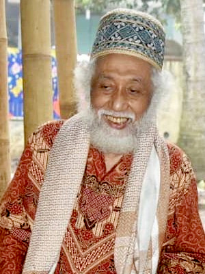 Abuya Ahmad Muhtadi Dimyathi during the commemoration of Haul Abuya Muhammad Dimyathi al-Bantani in 2018 at the Raudhatul Ulum Cidahu Islamic Boarding School, Cadasari, Pandeglang.